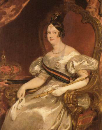 Portrait of D. Maria II, Queen of Portugal (1819-1853)